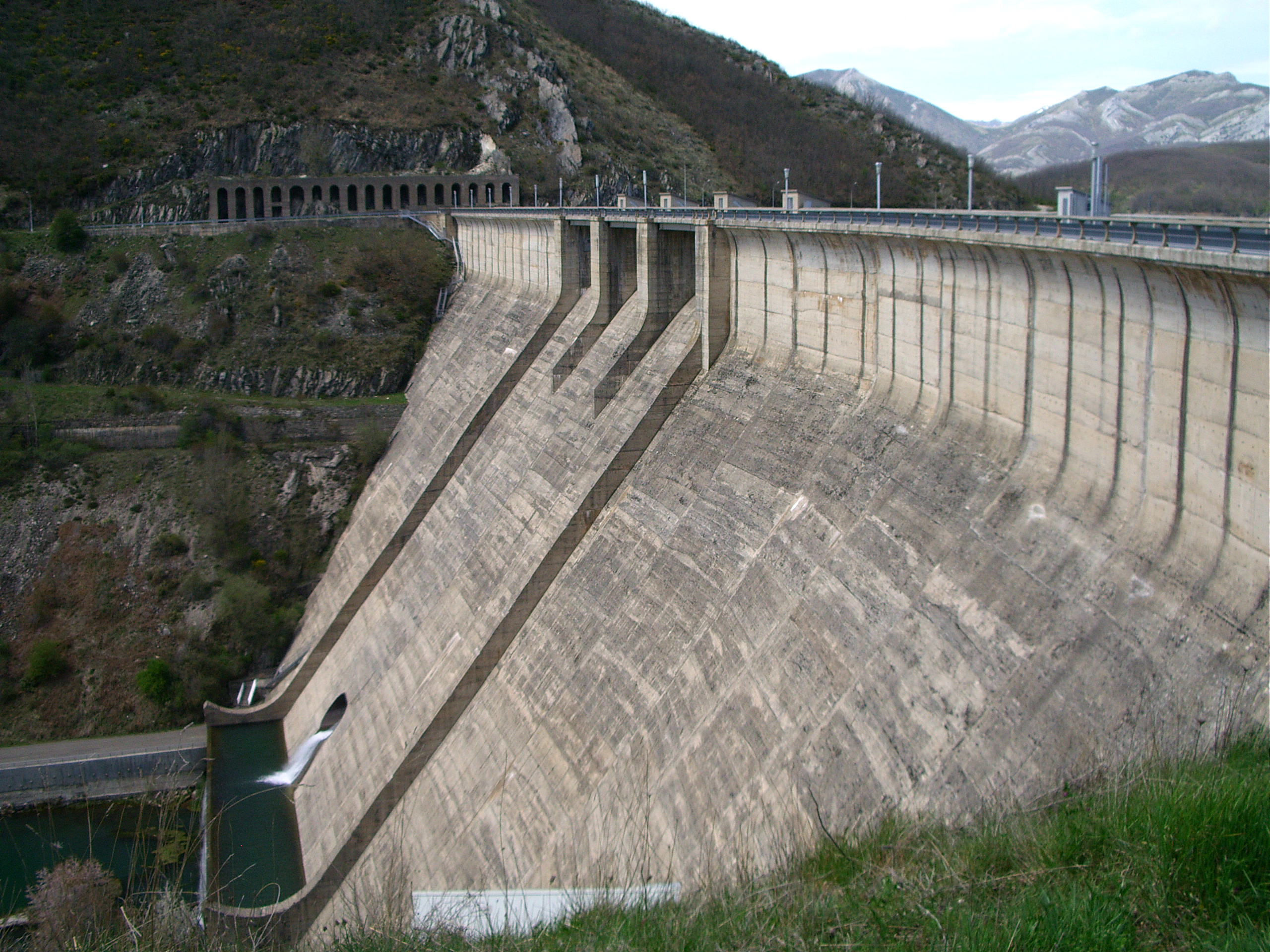 Dam of Porma (Leon)